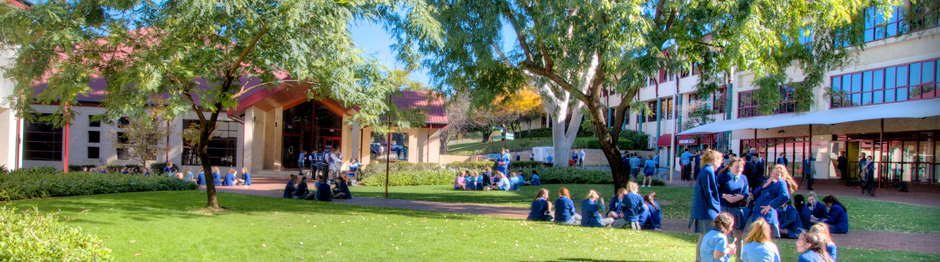 Founders Court, Marcellin Campus